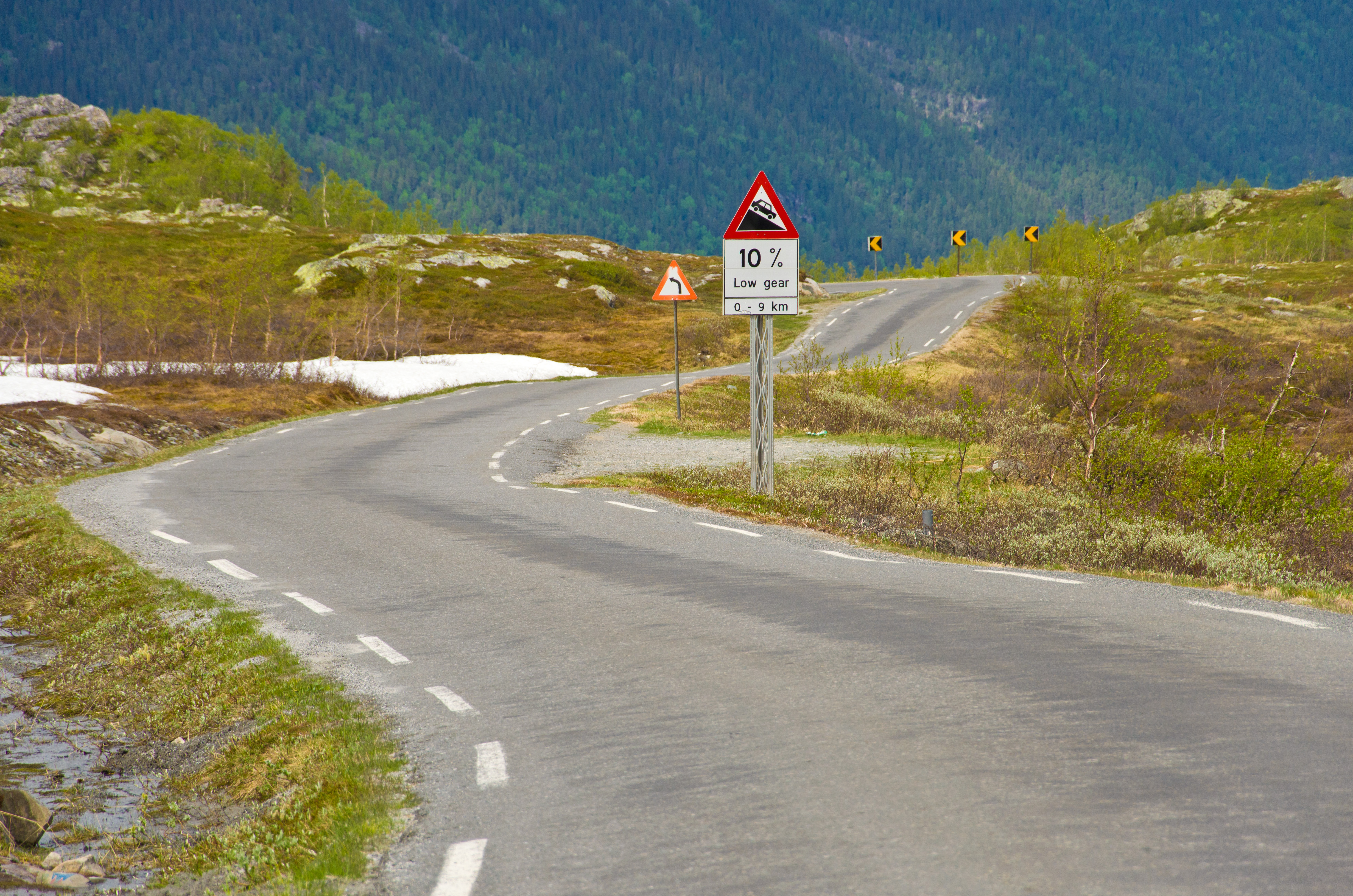 County road 651 in Tinn, Telemark, Norway